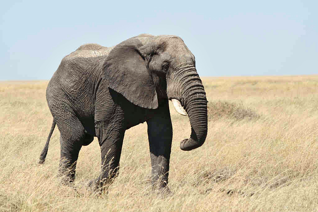 Serengeti National Park (Tanzania). Elephant in savanna.